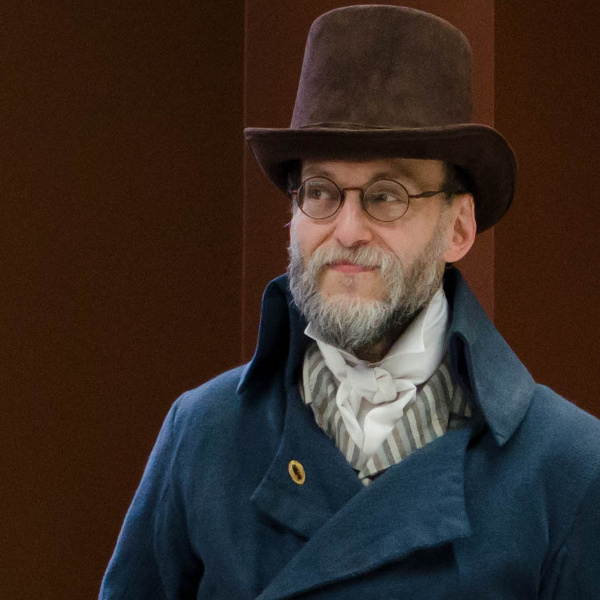 David D. Levine at the reading launching his debut novel, Arabella of Mars. Taken at Powell's Books Cedar Hills Crossing, in Beaverton, OR, on July 13, 2016.